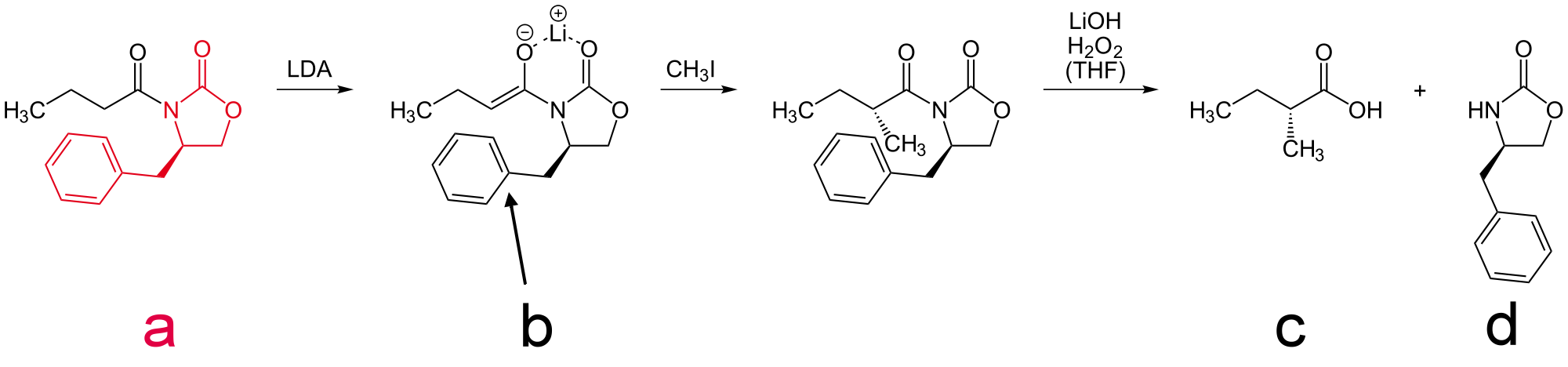 Electrophilic substitution with evans auxiliary